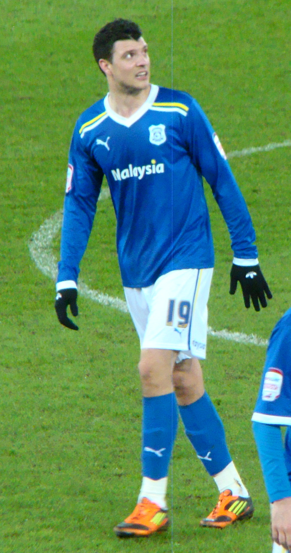 14/02/12 Cardiff V Peterborough, Championship, Cardiff City Stadium, Cardiff, Wales